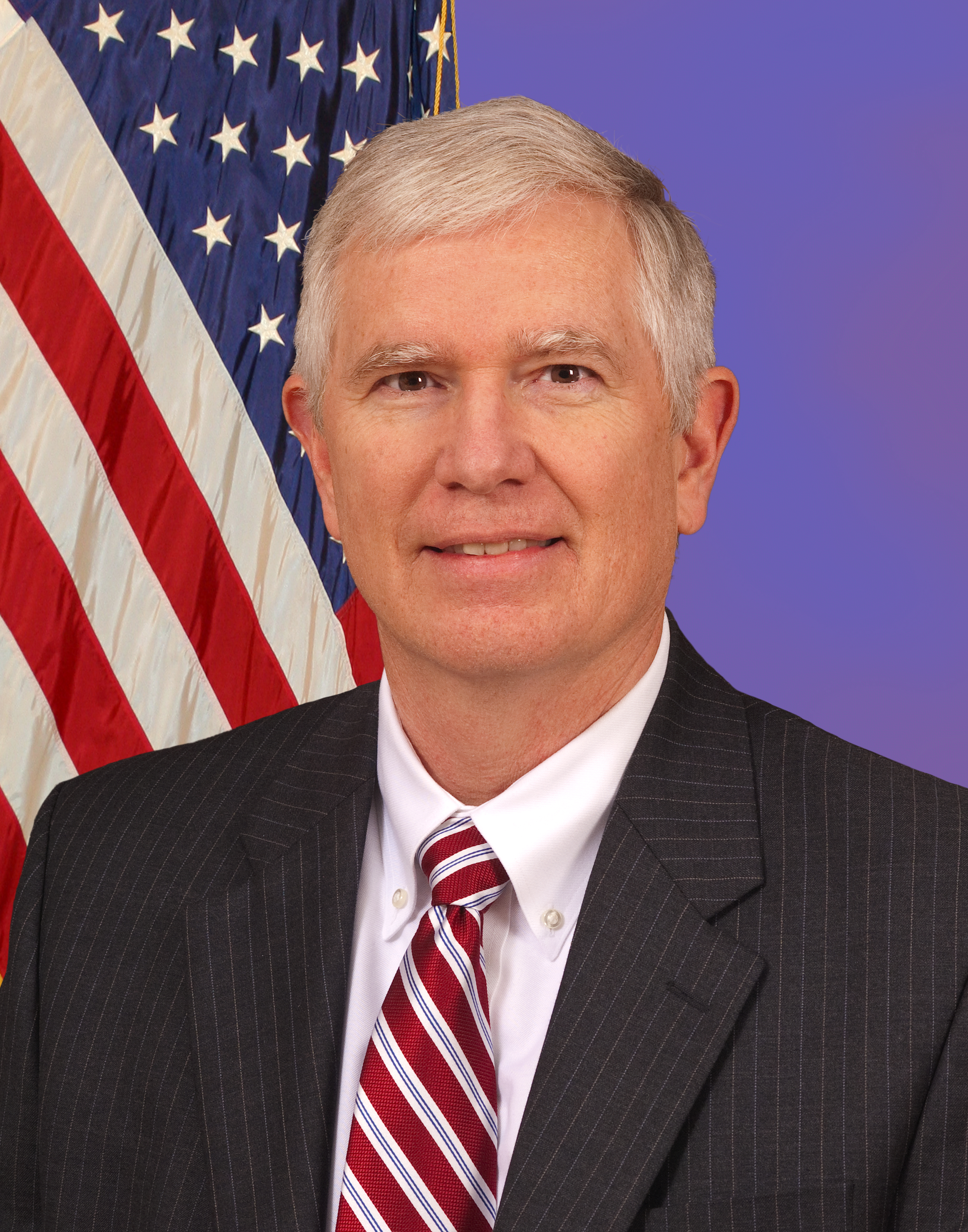 Mo Brooks, member of the United States Congress.